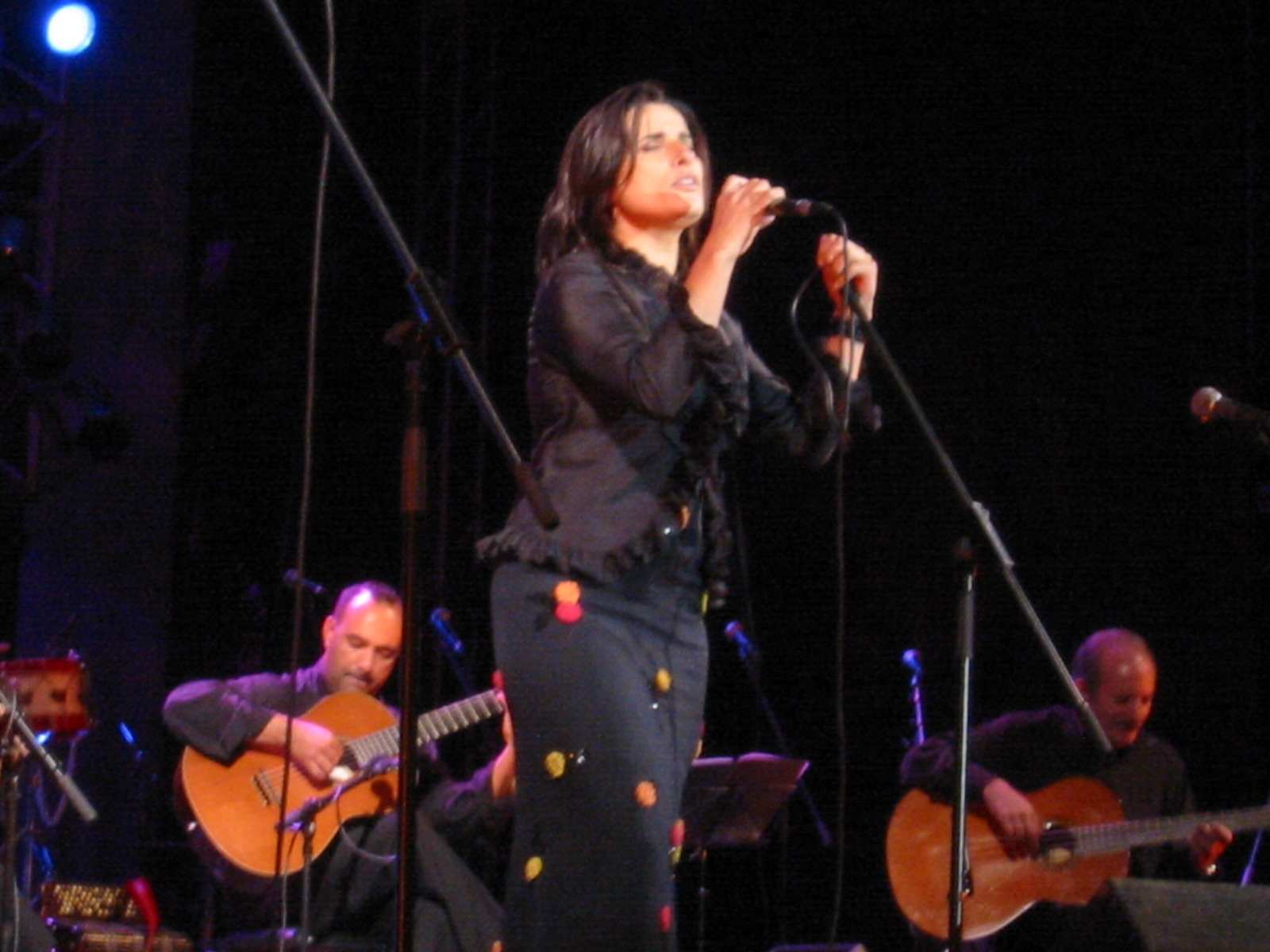 Cristina Branco at FMM Festival in Sines 2005